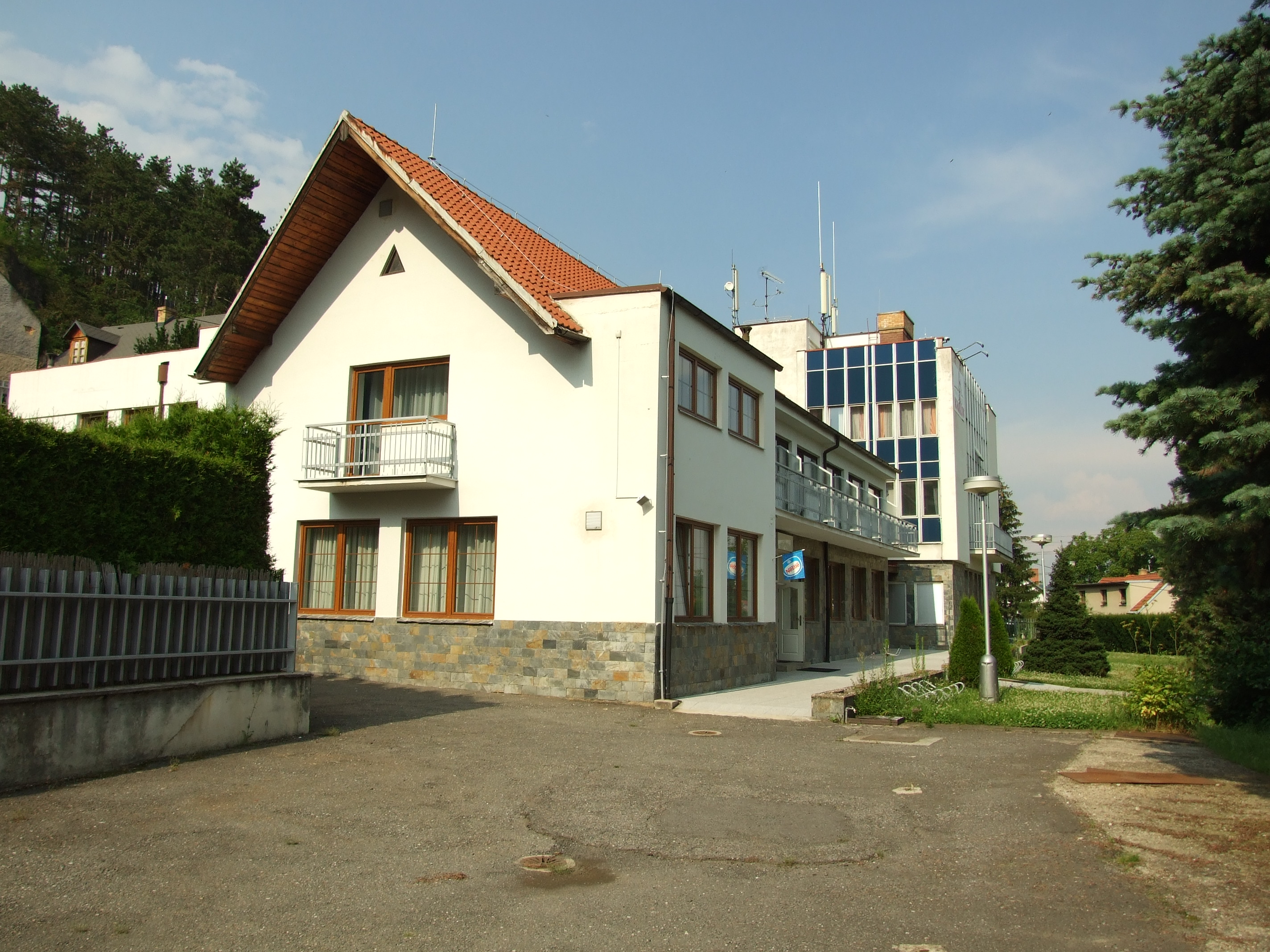 Town of Karlík near Prague and Beroun in Central Bohemian region, CZhelp